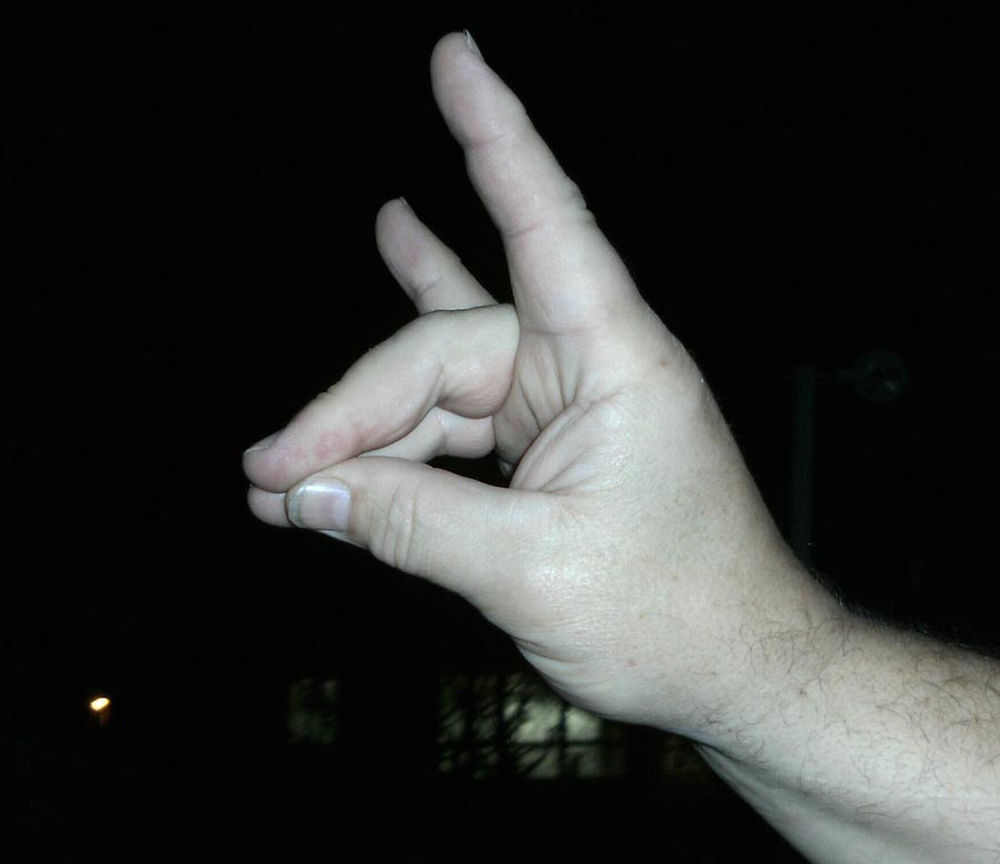 Salutation of the Turkish extremist Organisation "Grey Wolves" (Bozkurtçular), Ülkücü (=Idealist)-Movement, for example in Turkey organized in the party MHP (Milliyetçi Hareket Partisi) or "Türk Federasyon" for example in Germany organised as "Almanya Demokratik Ülkücü Türk Dernekleri Federasyonu", in short ADÜTDF. In the greeting, the hand is put forth, like in other fascistic movements. The organisation was founded by Alparslan Türkeş, the "big leader" (Başbuğ).